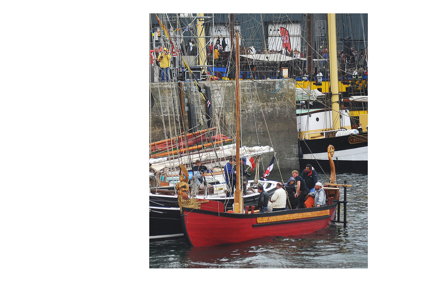 A copy of the old Slavik boat "Anna Yaroslavna" at the Brest (France) Maritime Festival 2012.